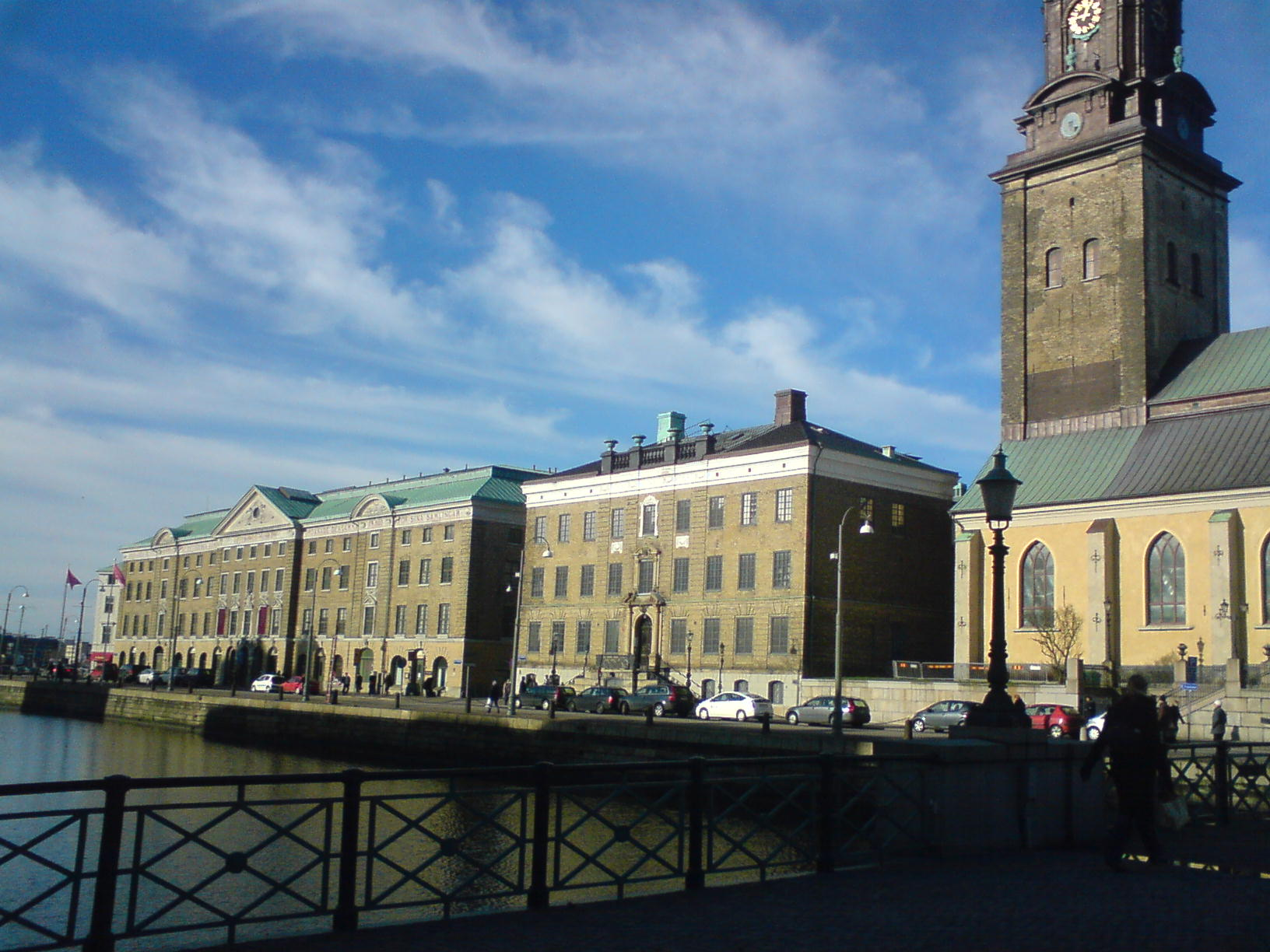 The house of Ostindiska kompaniet (the East India Company, an important trade company in the 18th Century in Sweden). Today it is the City Museum of Gothenburg (Swedish: Göteborgs stadsmuseum). To the right is the tower of the church Tyska kyrkan and between the church and the museum is a town house. The houses stand next to The main City Canal in Gothenburg/Göteborg - in